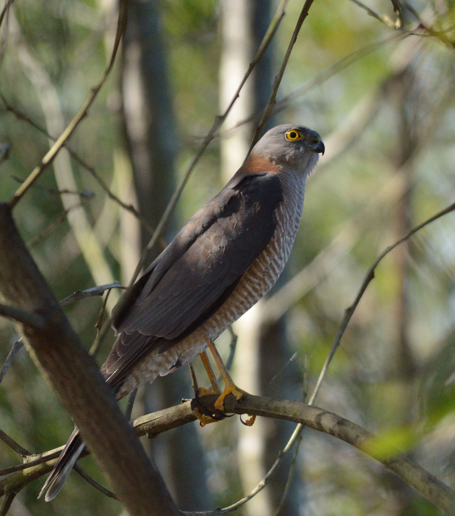 A Collared Sparrowhawk in Brisbane, Queensland, Australia.